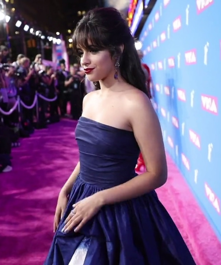 Camila Cabello at MTV VMA 2018